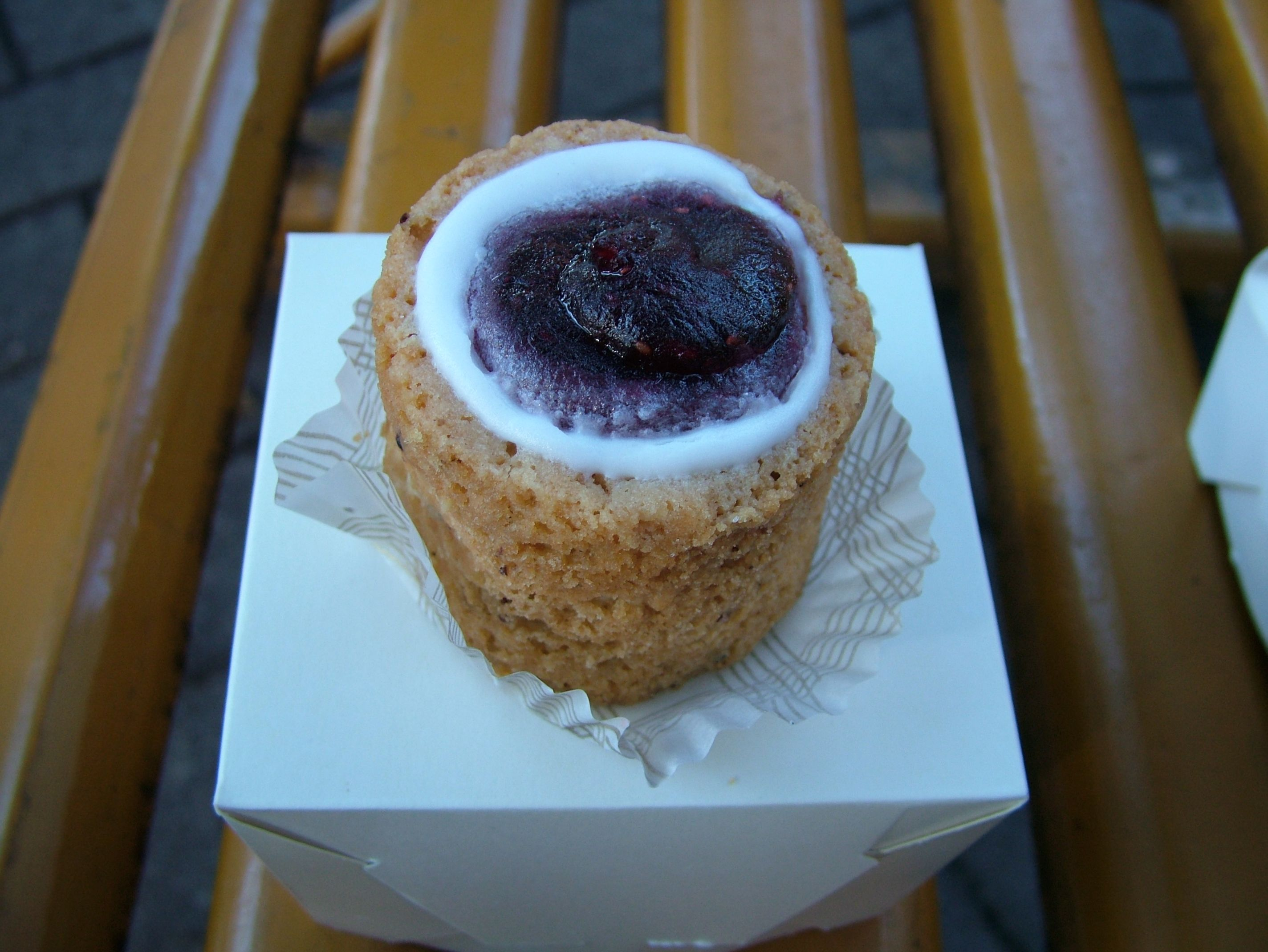 Runeberg's tart